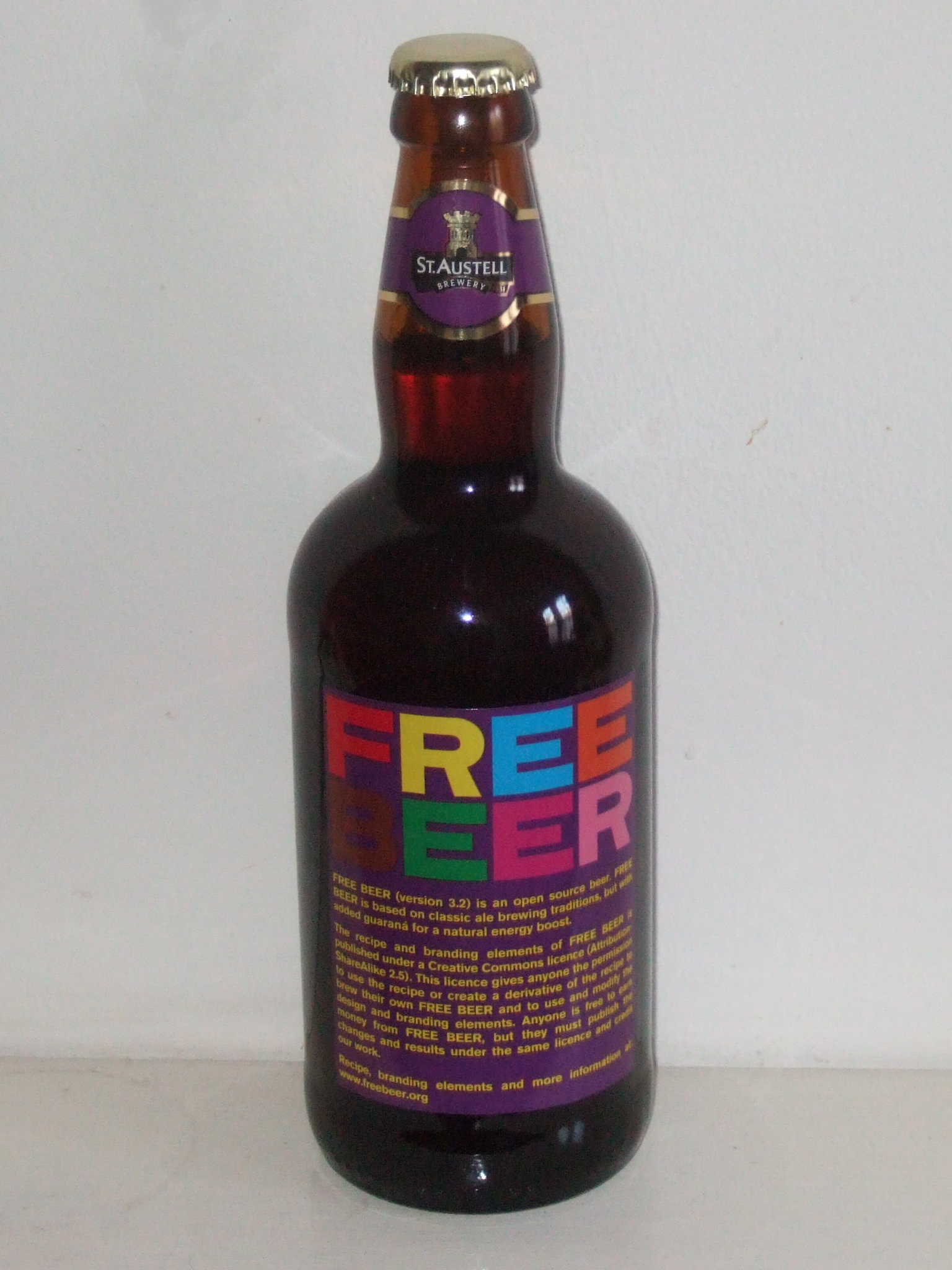 Free Beer, original Vores Øl (Danish for "Our Beer").